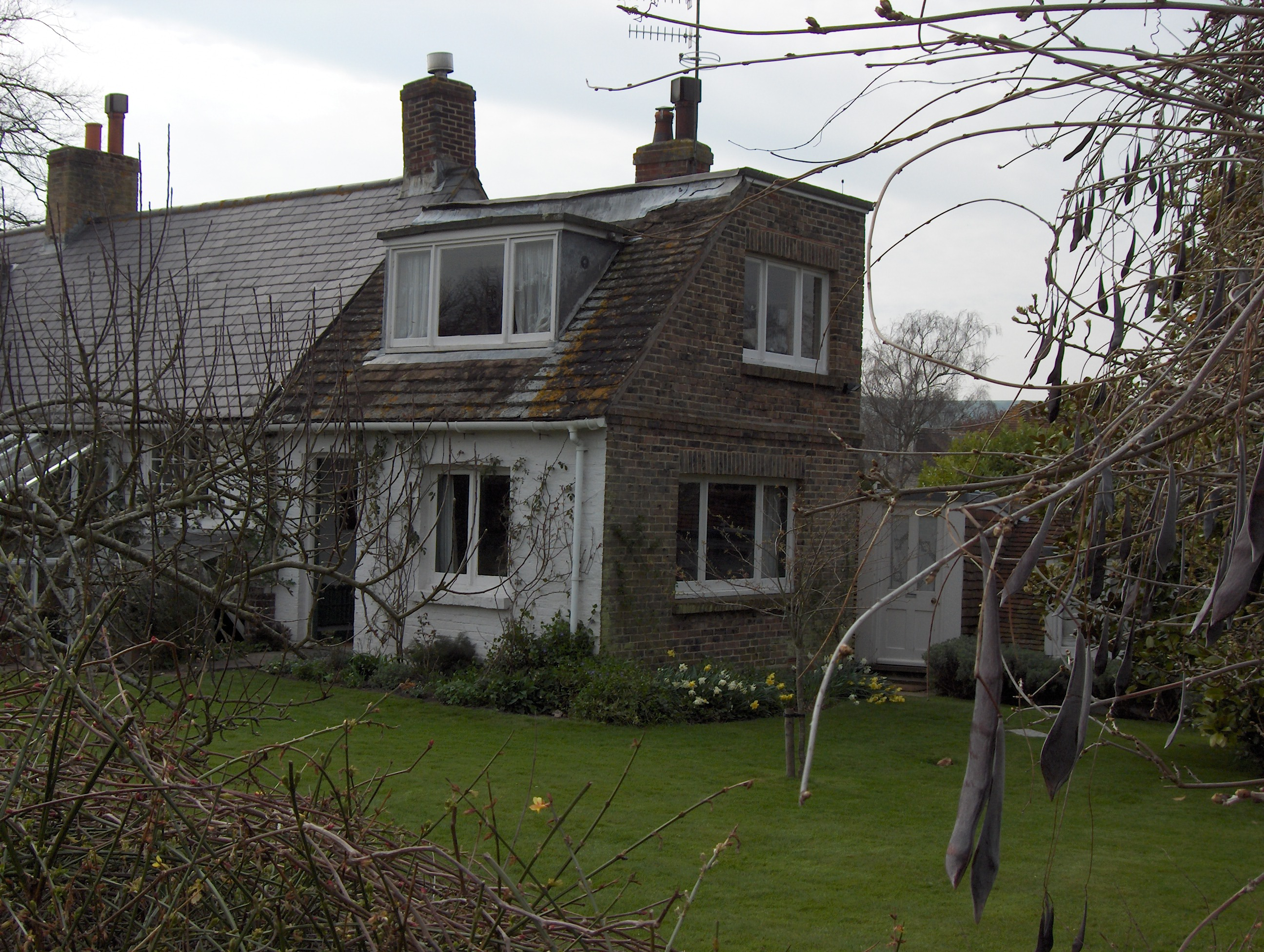 Template:Monk's house